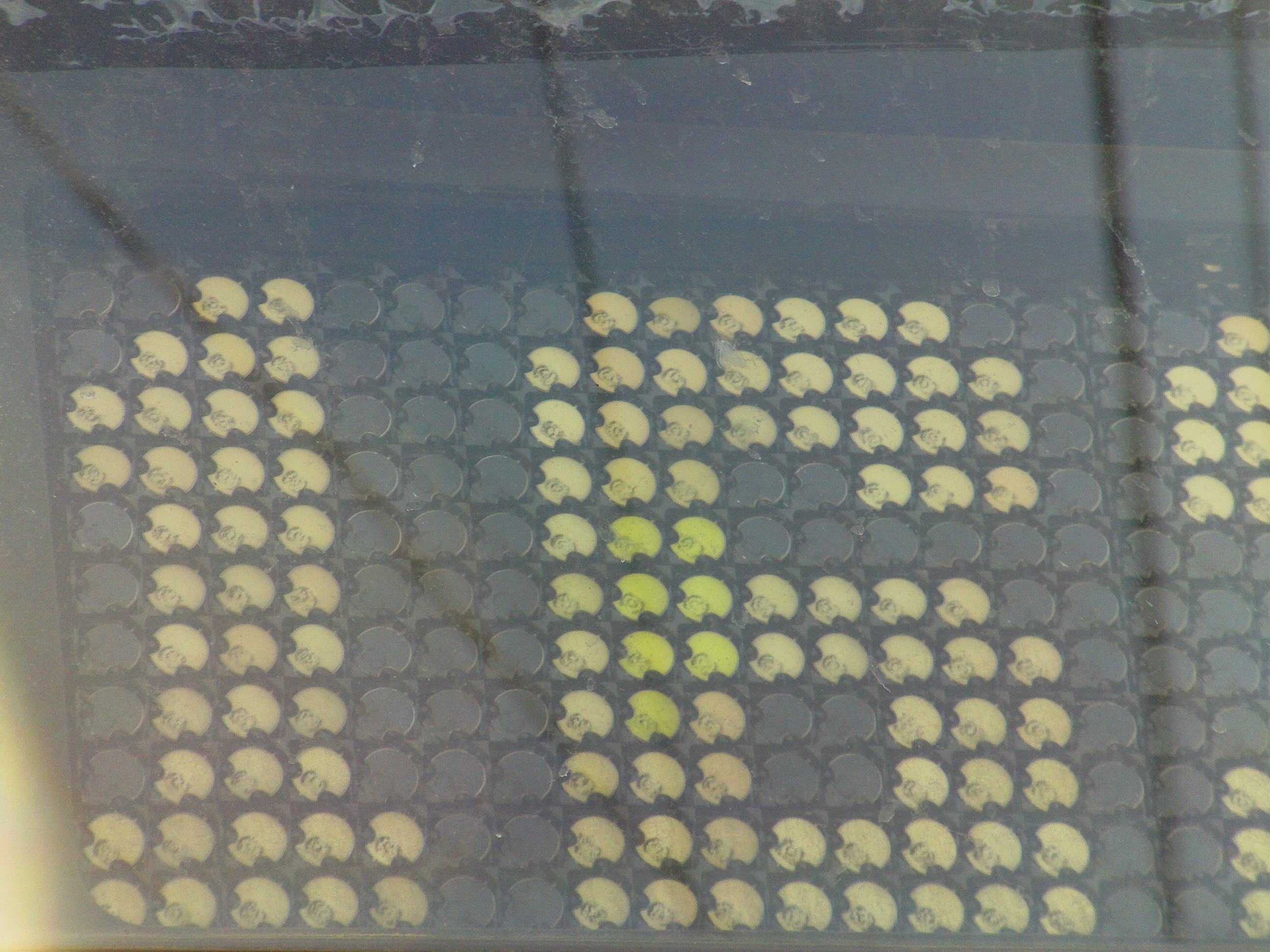 opelled display detail